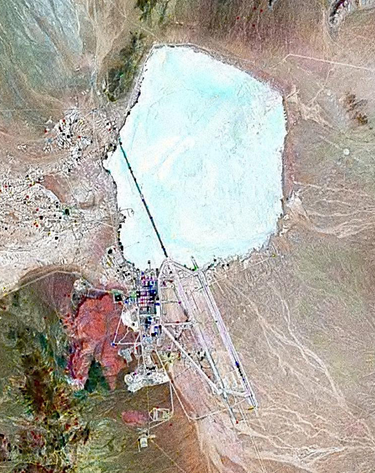 Landsat GeoCover 2000 pseudocolour imagery of Area 51 at Groom Lake, Nevada Test and Training Range, Nevada, USAObject location37° 14′ 06″ N, 115° 48′ 40″ W